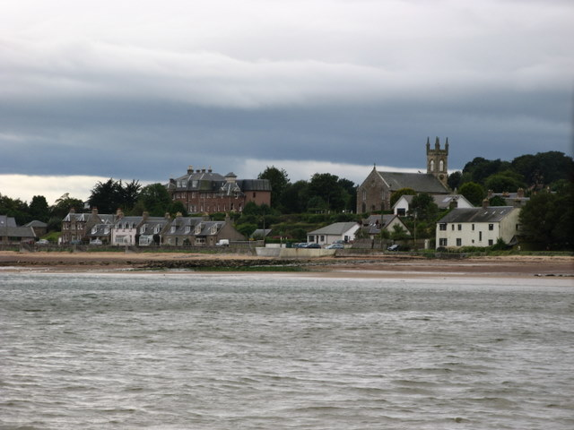 Rosemarkie seen from the beach, near to Rosemarkie, Highland, Great Britain.